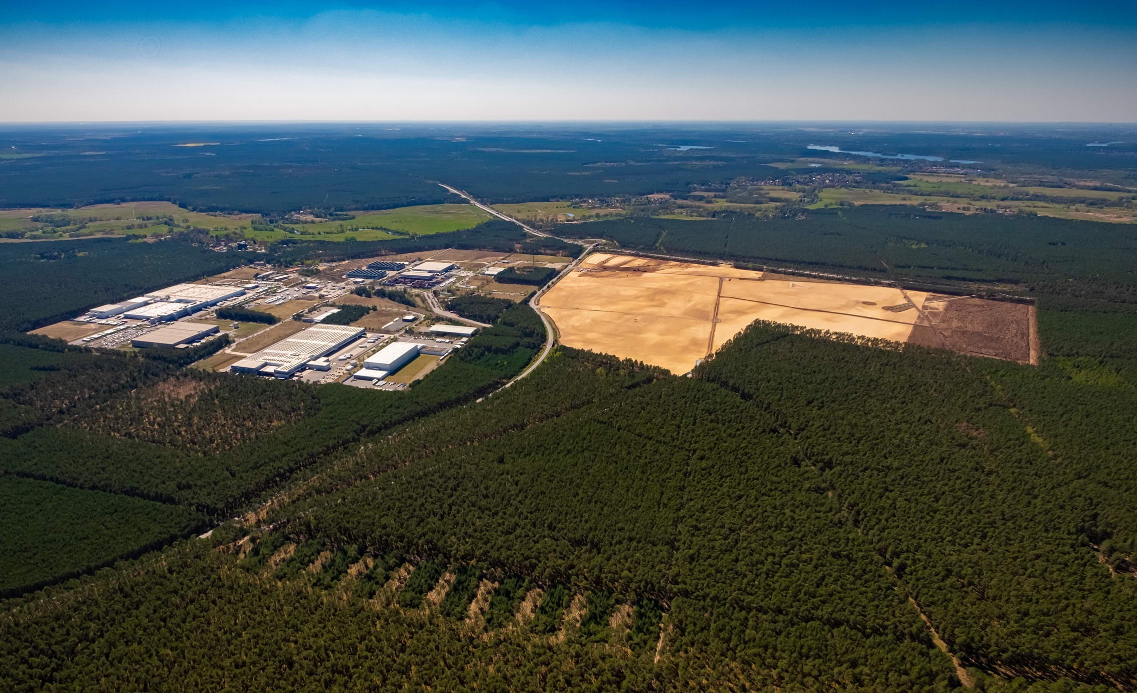 Baustelle der Tesla-Gigafactory 4